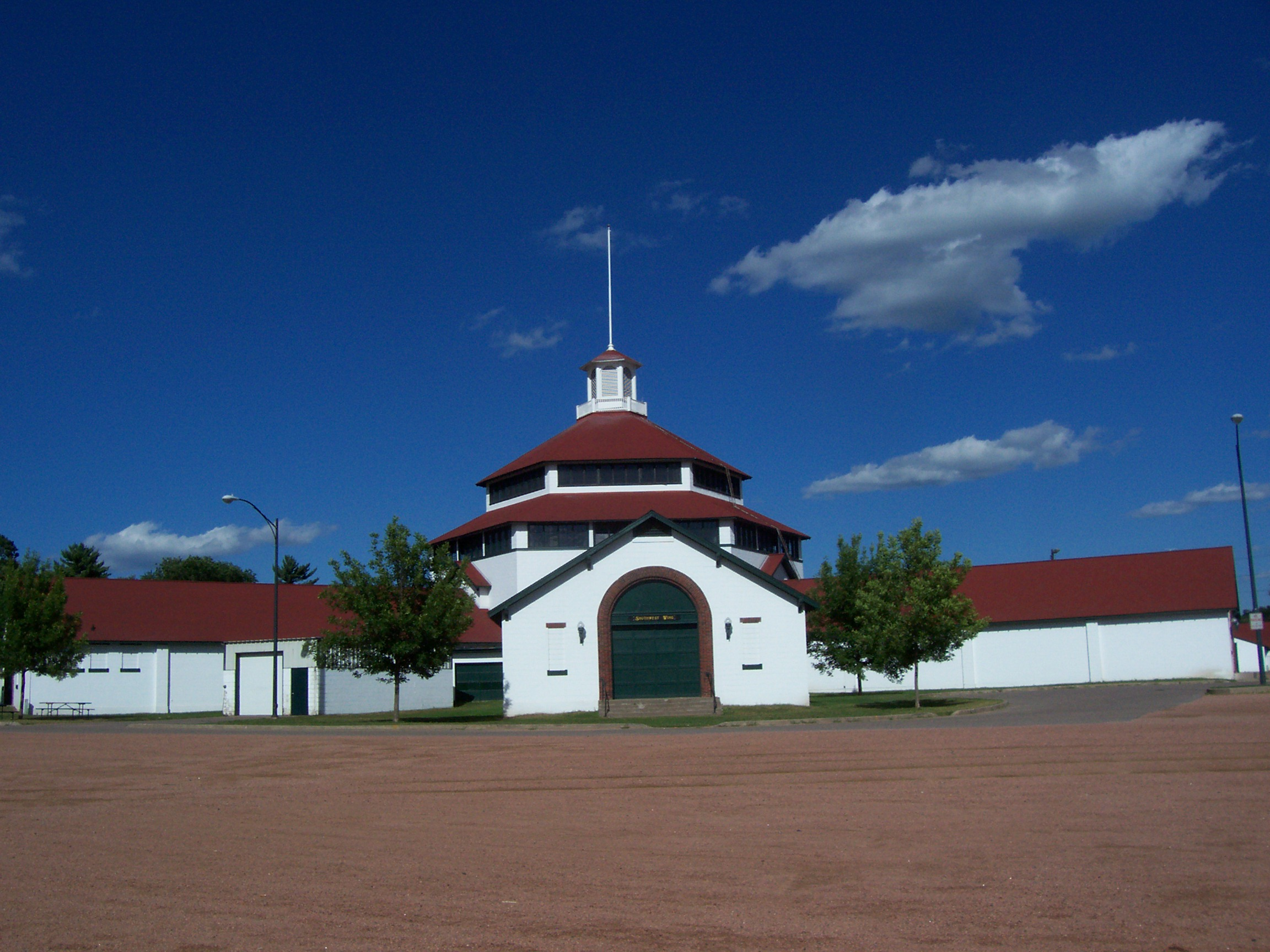 The barn Marathon County, Wisconsin fairgrounds in Wausau, Wisconsin, United States. The building is used for exhibitions. It is listed on the National Register of Historic Places.